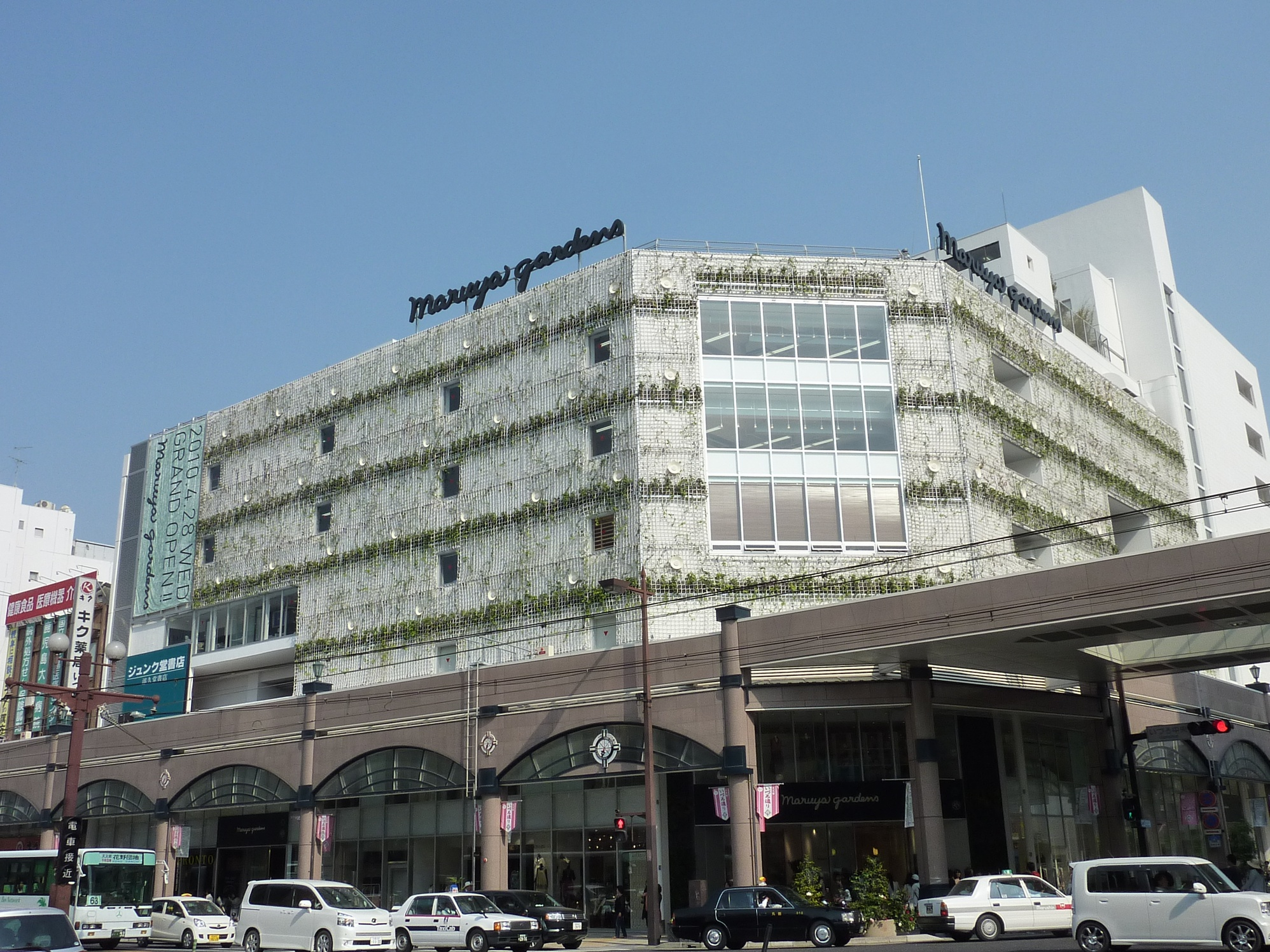 The Maruya Gardens is in Central Kagoshima City (Tenmonkan), Japan.